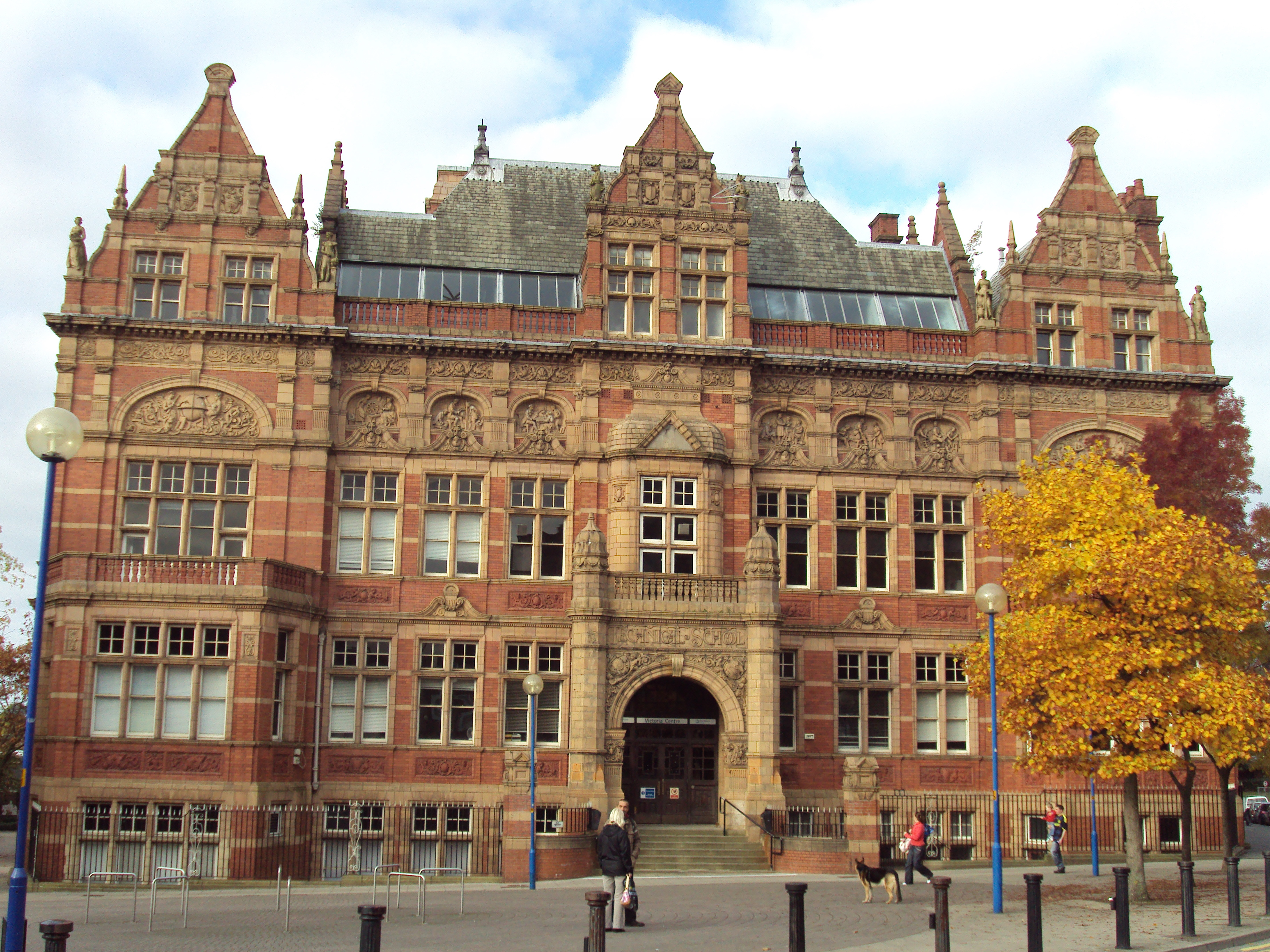 The Victoria Building of Blackburn College, Blackburn, Lancashire, England.